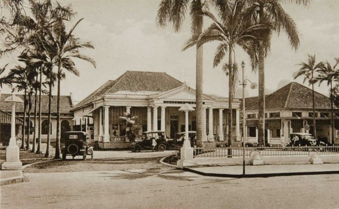 Cars in front of Hotel Preanger